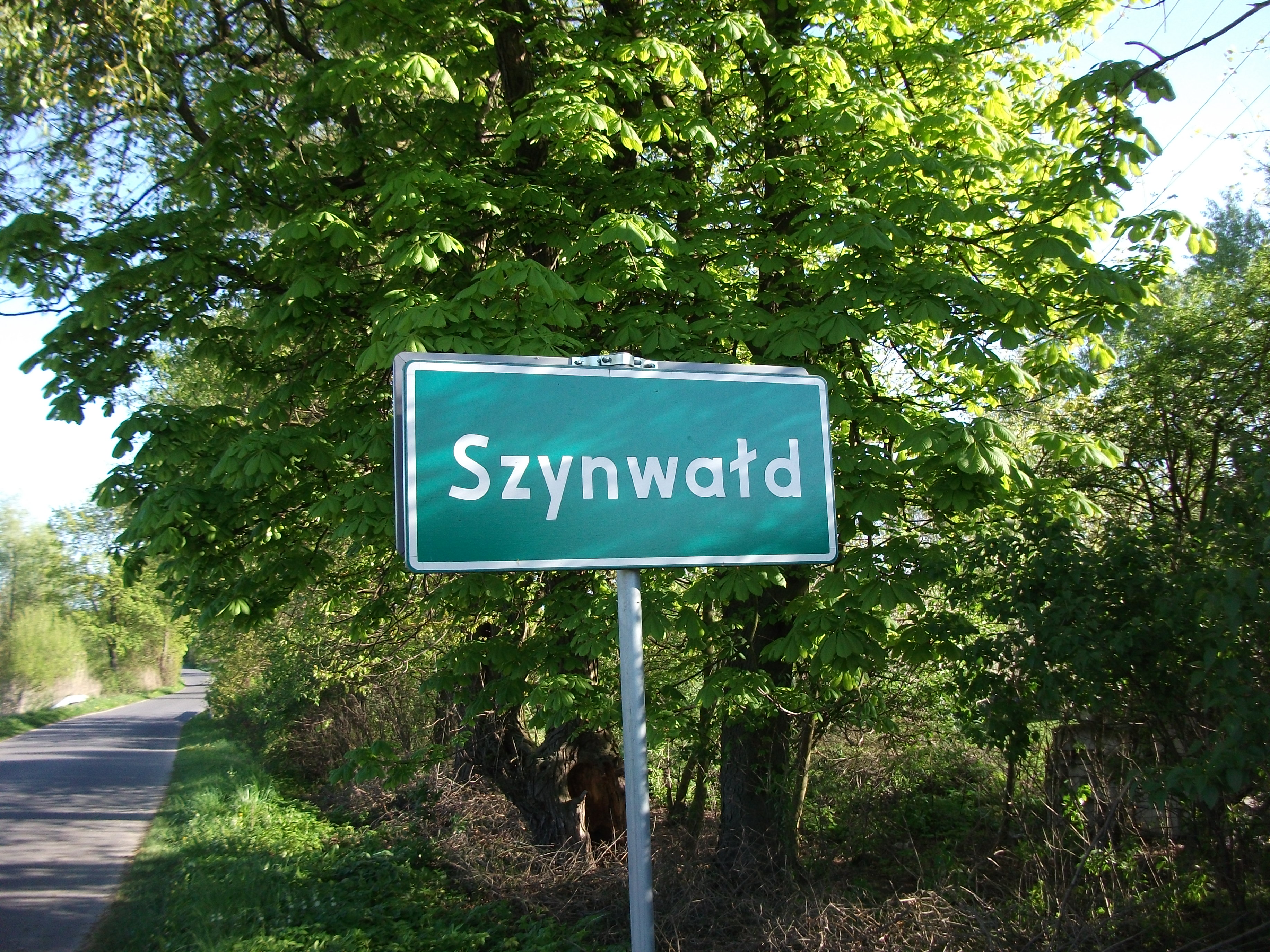 village in Poland